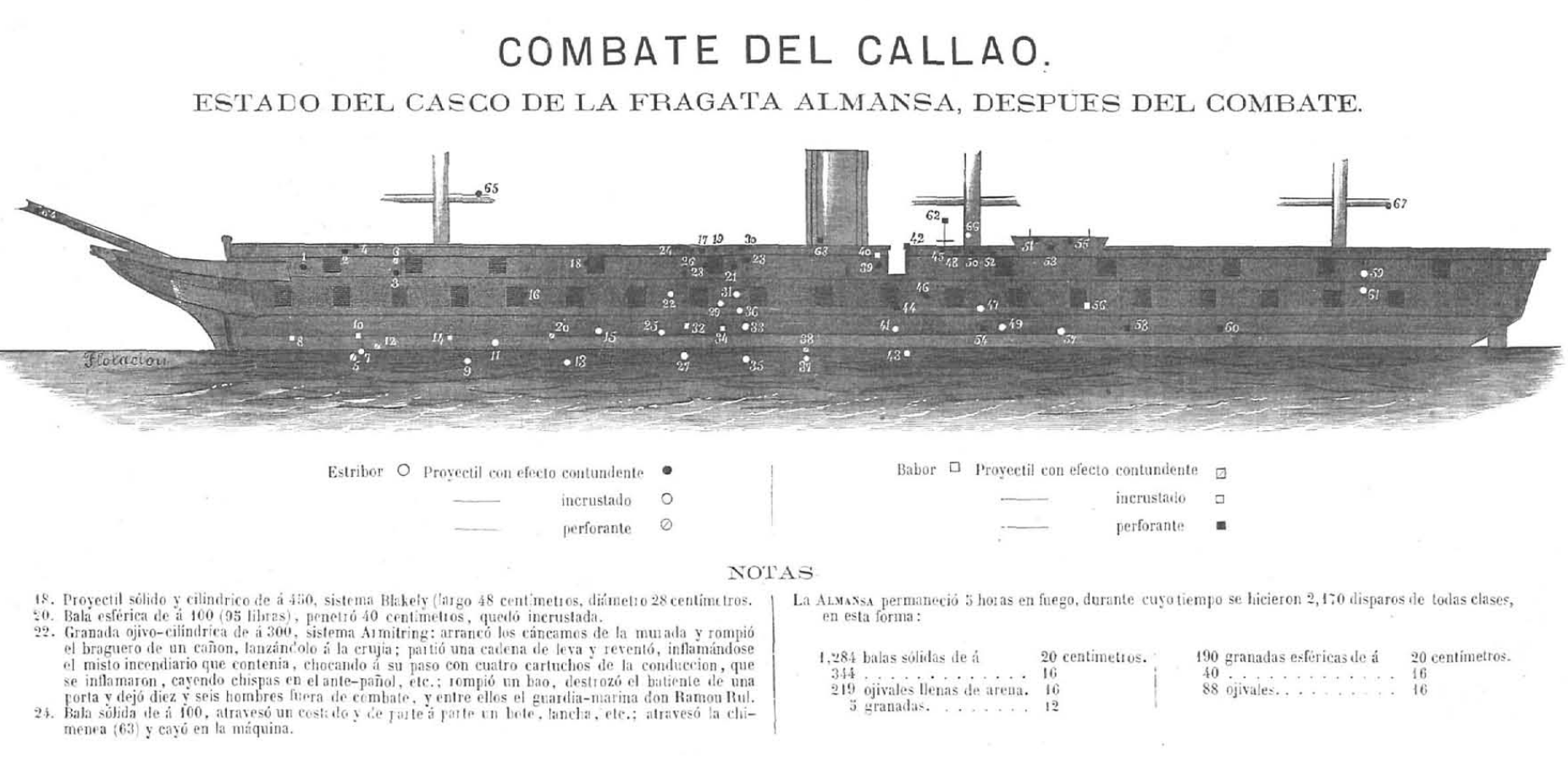 Relation of damages. Frigate spanish Almansa.